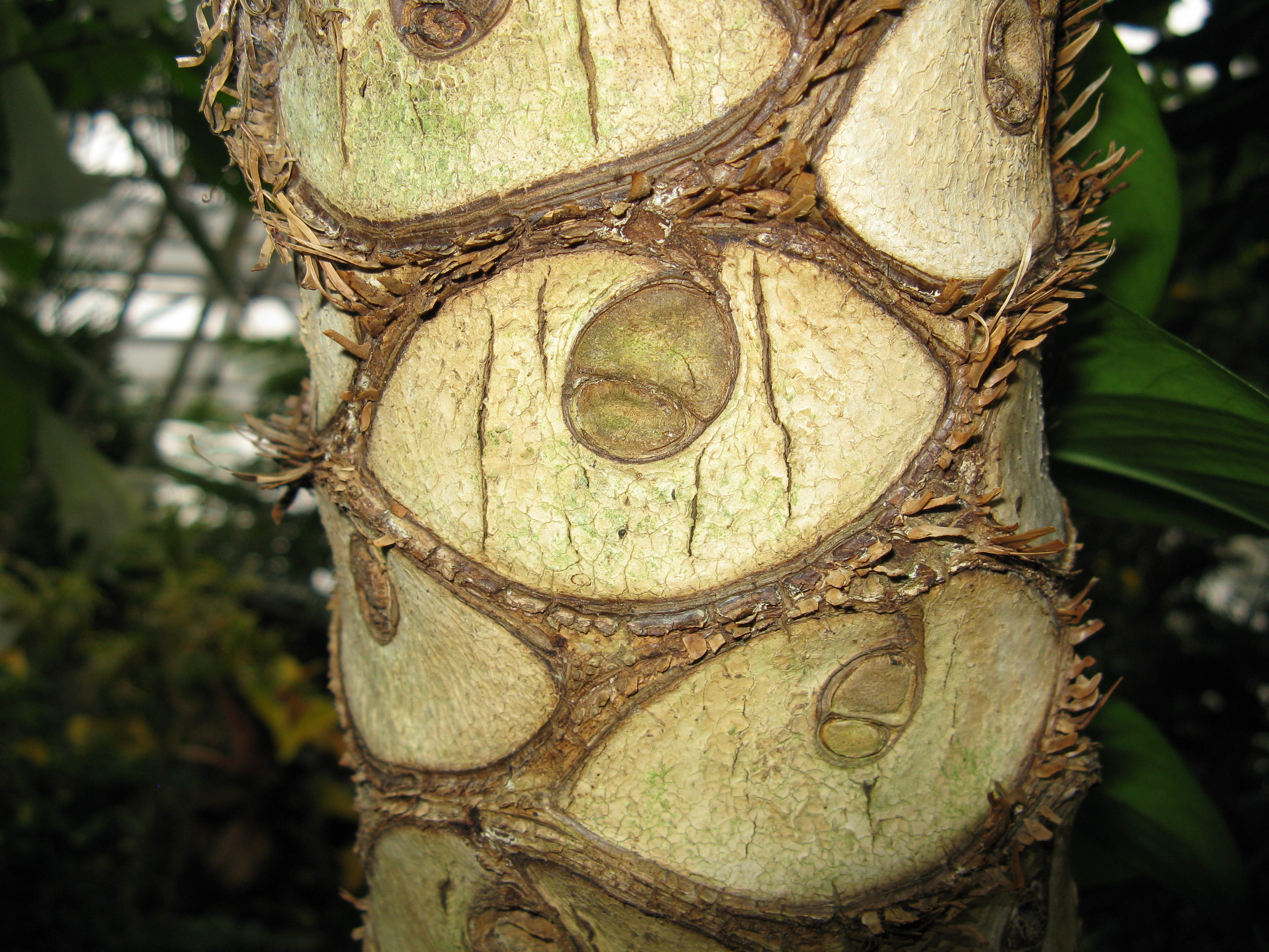 Scientific name Philodendron bipinnatifidum (syn. P. selloum)